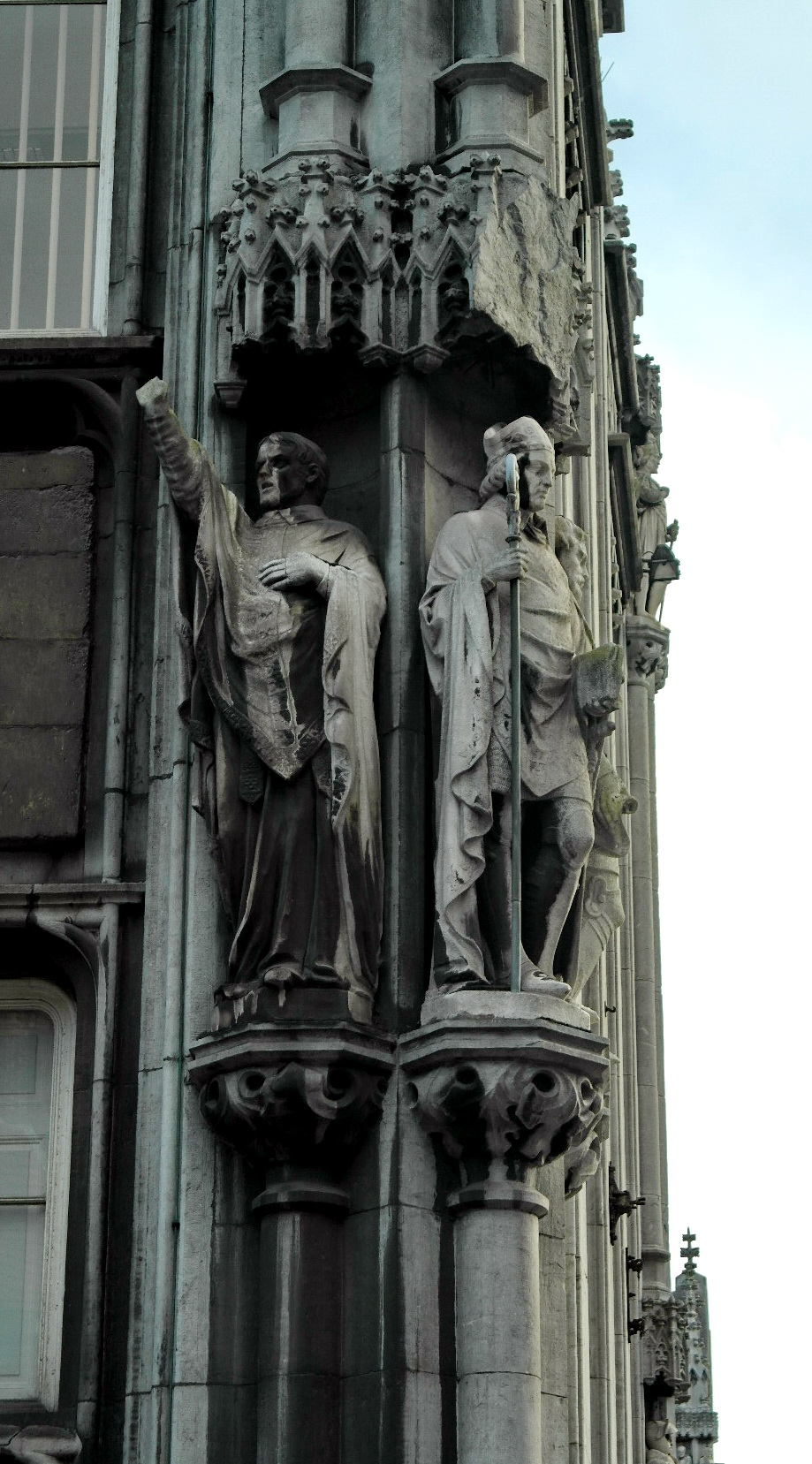 West façade of the provincial palace in Liège, Belgium Here the 19th-century statues of 12th-c religious reformer Lambert le Bègue and 13th c bishop Hugues de Pierrepont.